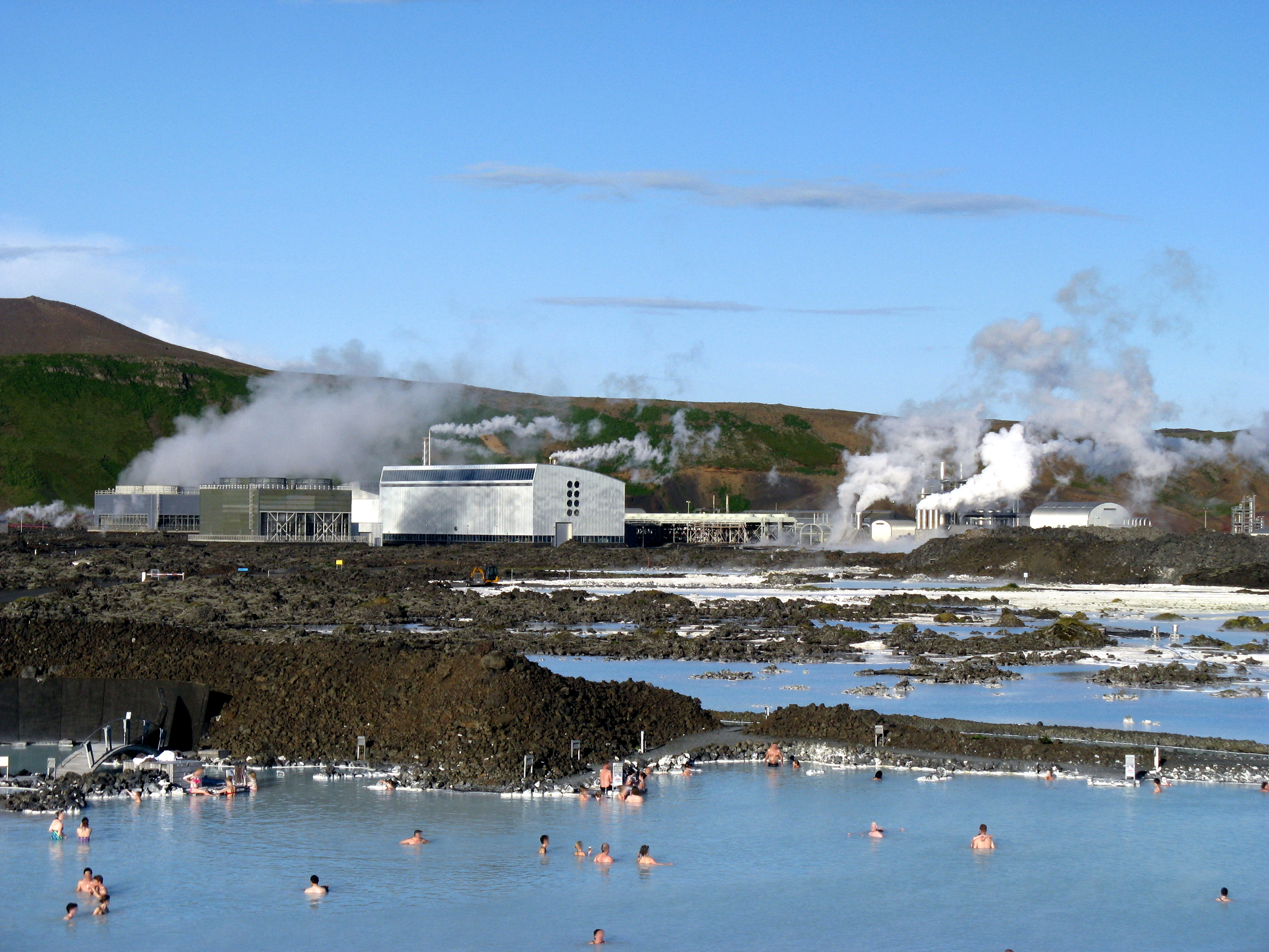 Blue Lagoon - swimming pool in the effluent pools from a geothermal power plant. Faces of swimmers obscured for privacy.